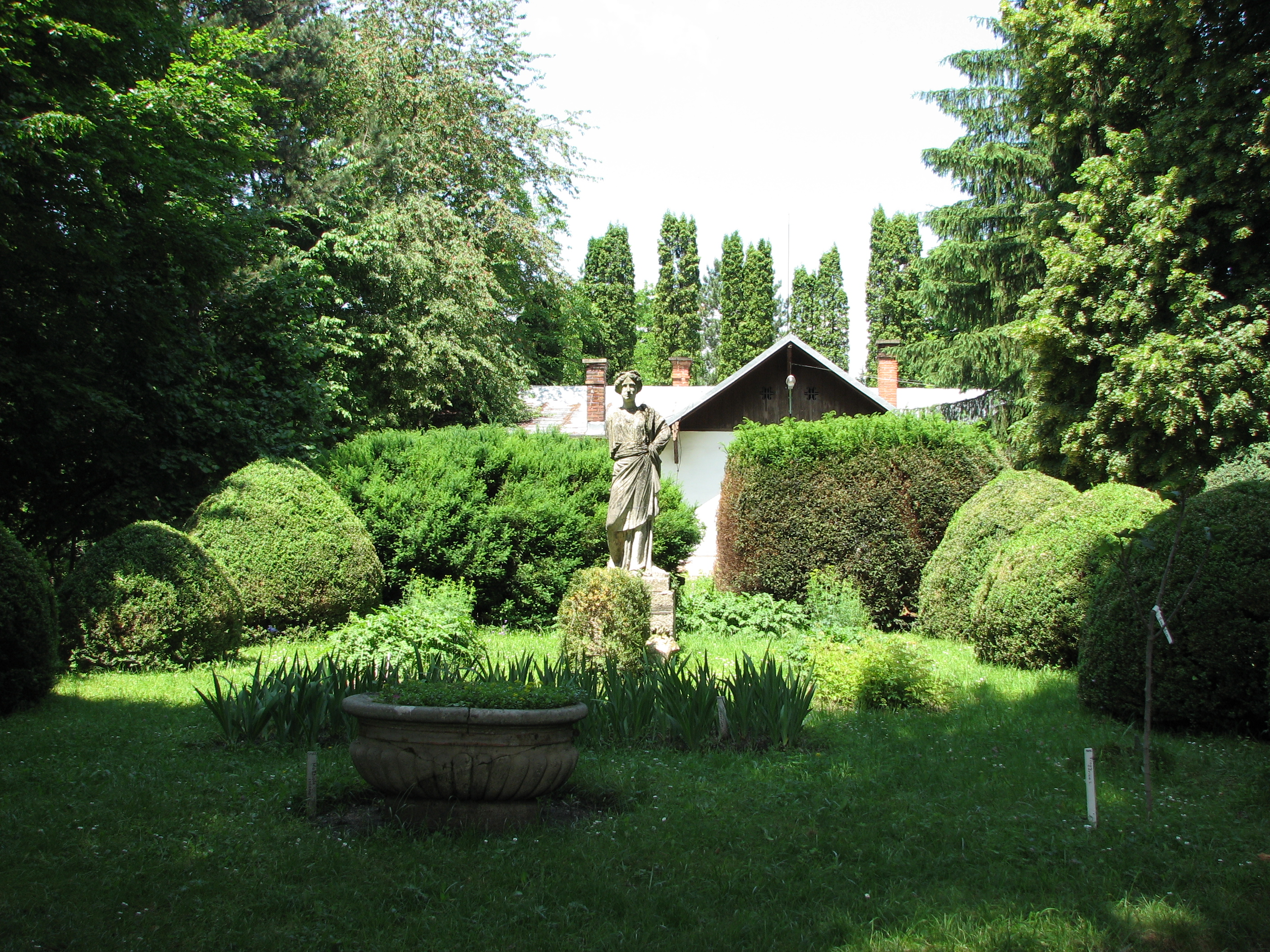 The Roman garden within the local botanical garden